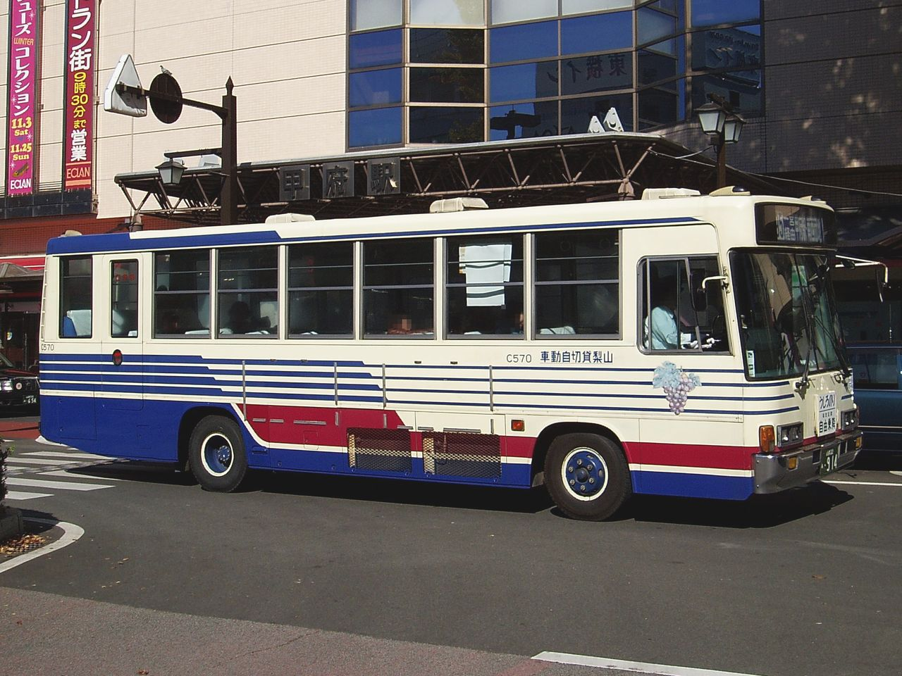 Yamanashi Kashikiri Bus Isuzu P-LR312J 2007.11.13 Photo by Cassiopeia_sweet.